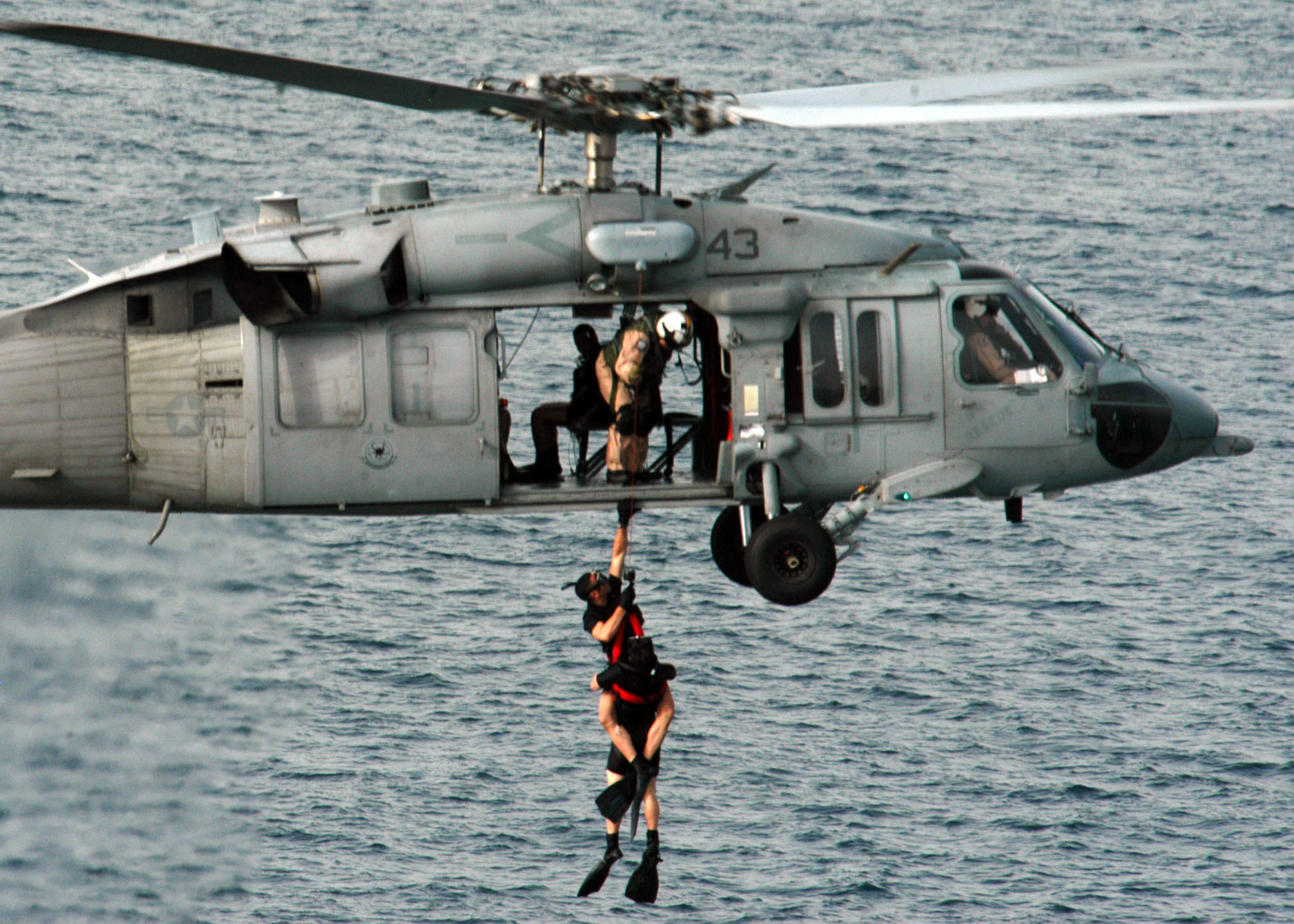 Persian Gulf (May 17, 2005) - Aviation Structural Mechanic 3rd Class Wayne Shockley and Aviation Machinist's Mate 3rd Class Jose Lebron assigned to Helicopter Sea Combat Squadron Two Eight (HSC-28) conduct Search and Rescue (SAR) drills in the Persian Gulf. The amphibious assault ship USS Kearsarge (LHD 3) and embarked HSC-28 are on a scheduled deployment in support of the global war on terrorism and are currently conducting Maritime Security Operations. U.S. Navy photo by Photographer's Mate Airman Sarah E. Ard (RELEASED)